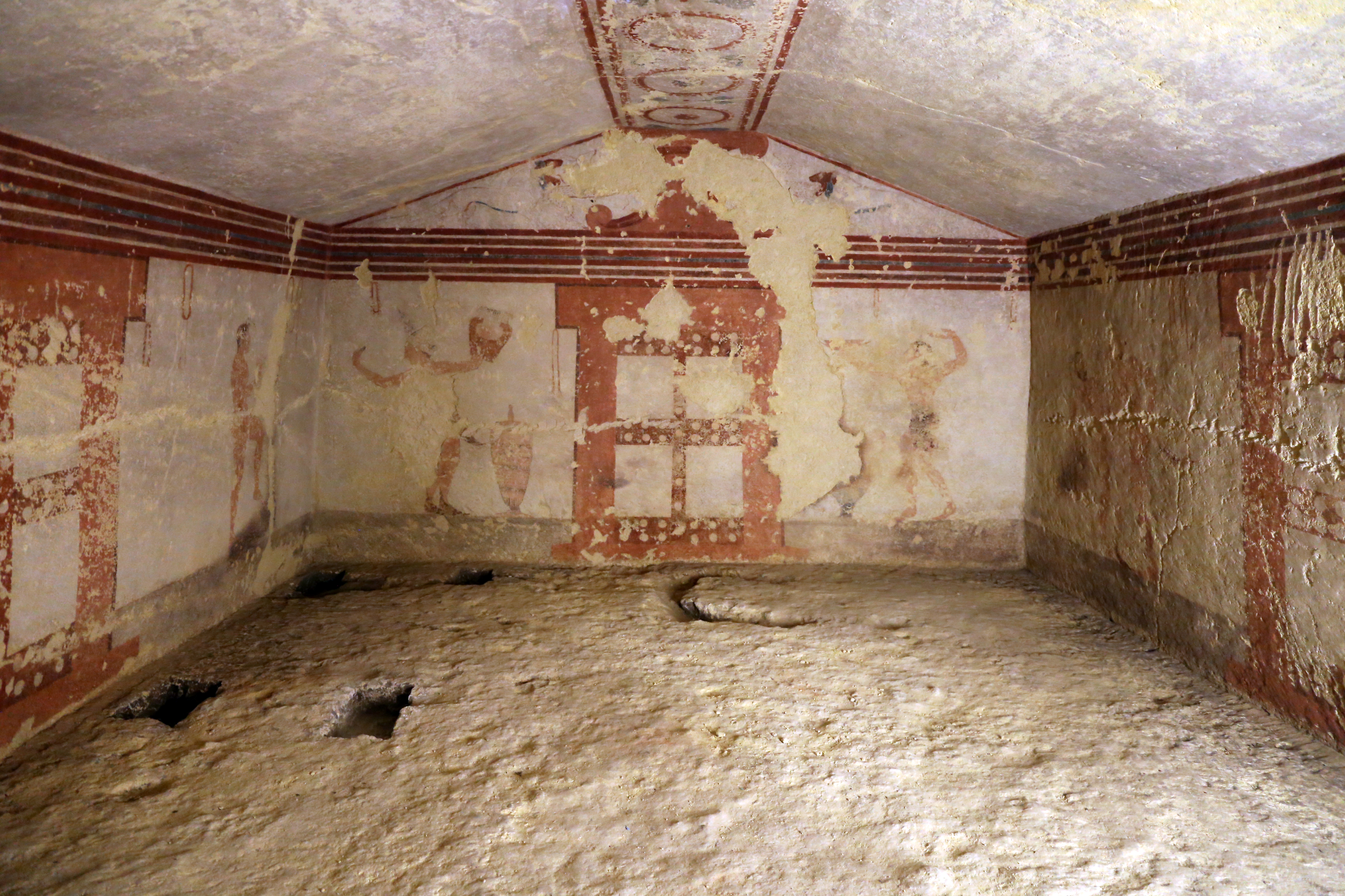 Necropoli dei Monterozzi (Tarquinia)